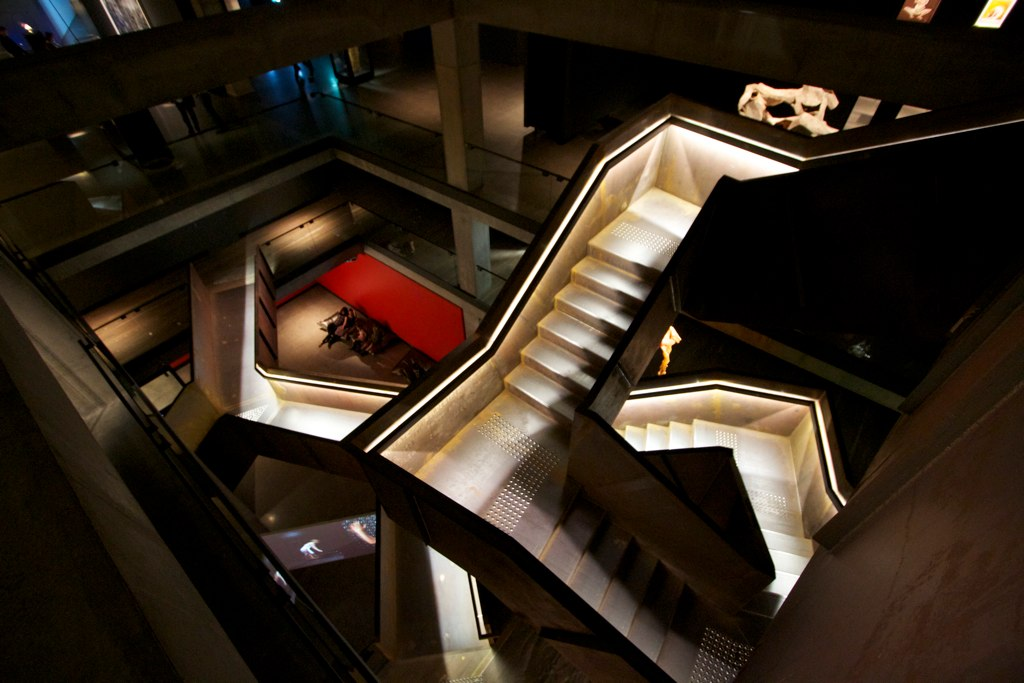 Stair crazy - illuminated staircase in the mona museum